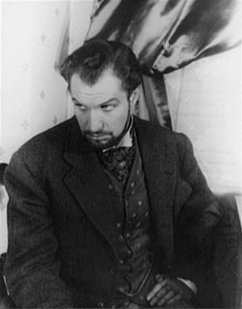 Vincent Price on Broadway as Mr. Manningham in Angel Street, 1942 Nov. 11., photographed by Carl Van Vechten.